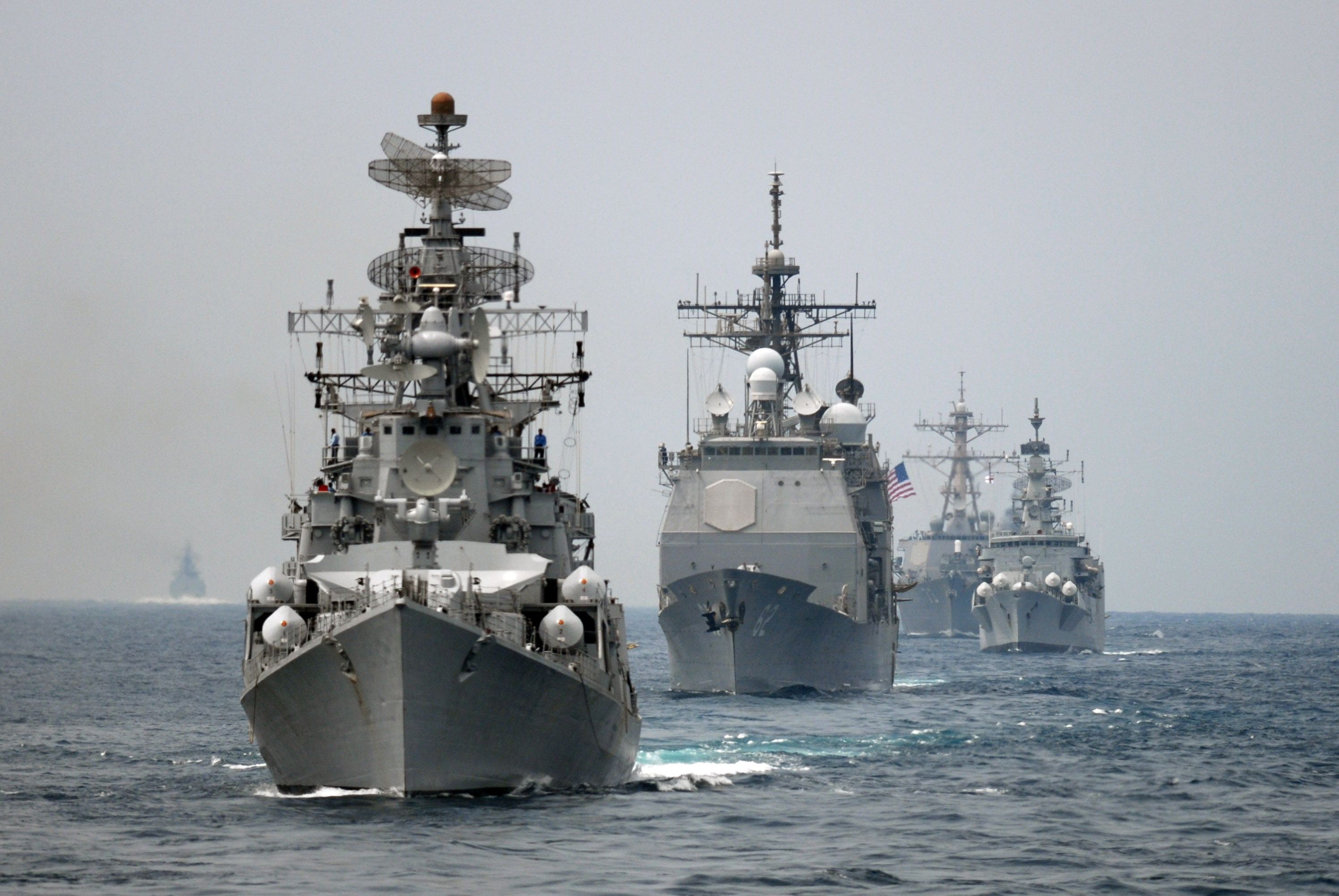 081022-N-7730P-008 INDIAN OCEAN (Oct. 22, 2008) The Indian ship Rajput class destroyer INS Rana (D 52) leads the passing exercise formation. The formation involving the Ronald Reagan Carrier Strike Group and Indian navy's Western Fleet received honors in passing from the Indian flagship INS Mumbi (D 62). The Nimitz-class Aircraft carrier USS Ronald Reagan led the formation as it received honors in passing by the Indian navy's Western Fleet flagship INS Mumbai (D 62), signifying the completion of the three-day exercise Malabar 08. Malabar was designed to increase cooperation between the Indian and U.S. Navy while enhancing the cooperative security relationship between India and the U.S.